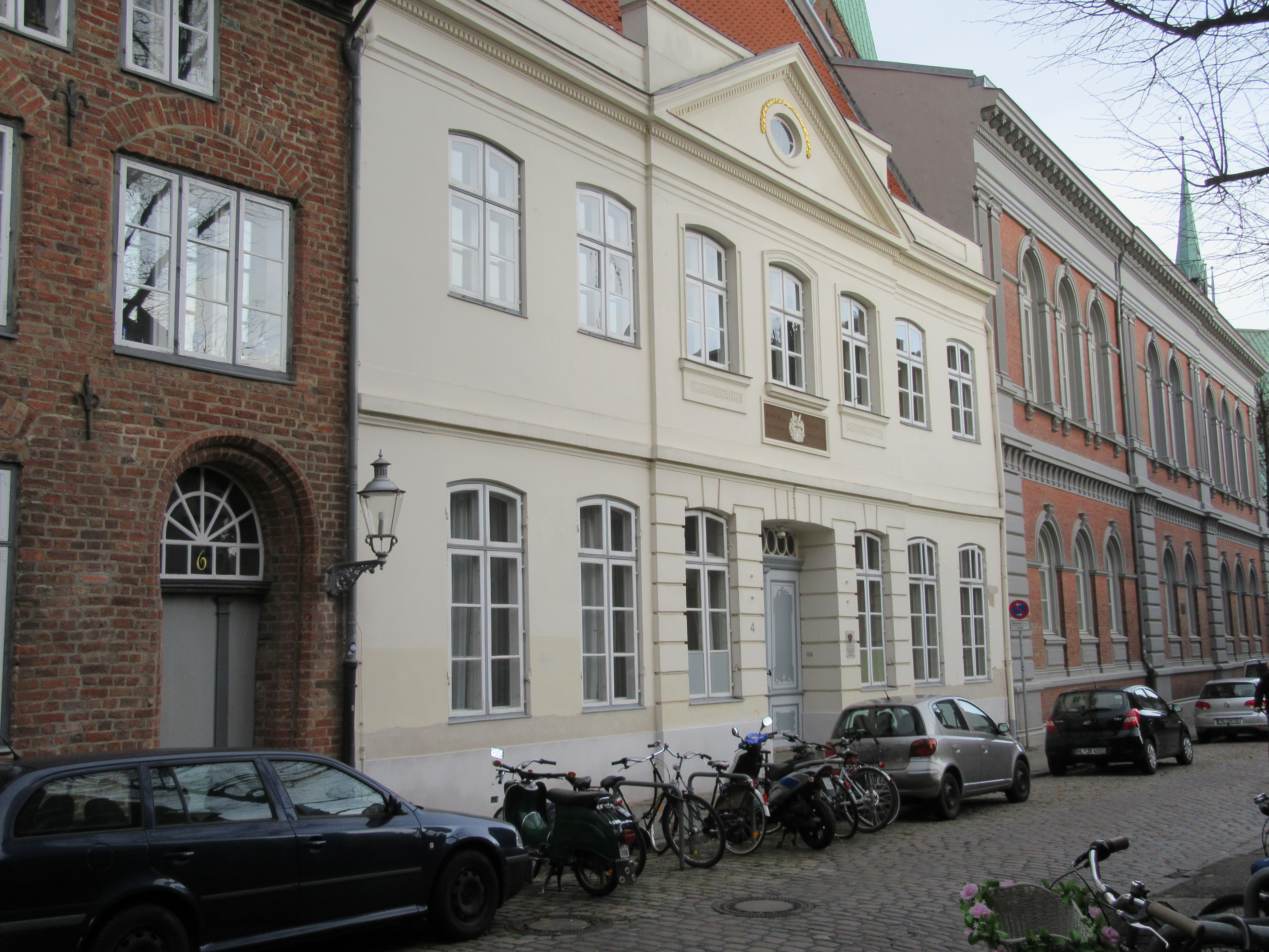 St.-Annen-Strasse 4